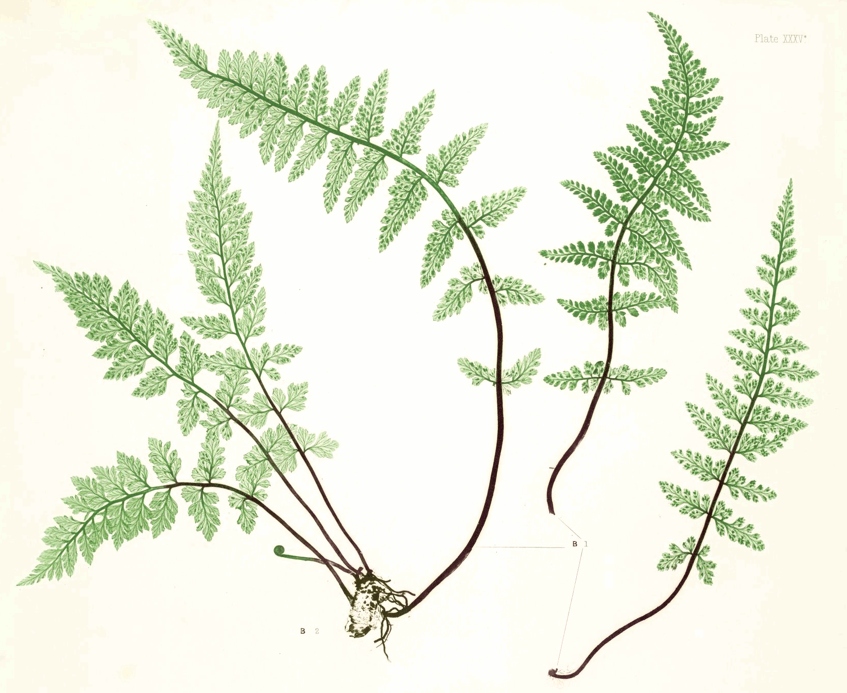 Plate from book